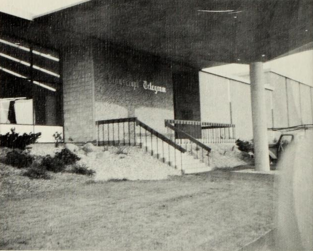 The last headquarters of the Holyoke Transcript-Telegram, built in the early 1970s at 120 Whiting Farms Road.